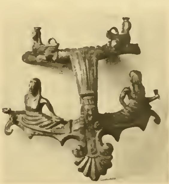 bronze handle